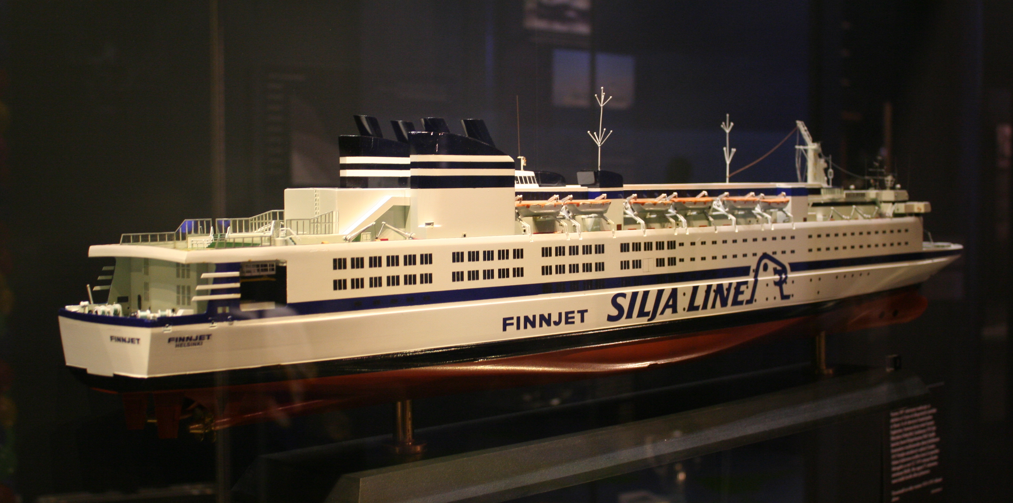 A model of the cruiseferry GTS Finnjet in her original Silja Line livery, with Effoa funnel markings, dark blue decorative stripes on hull & superstructure and Silja Line's seal logo on the hull. This livery was in use 1987-1990. The model is on display at the Finnish Maritime Museum in Maritime Center Vellamo in Kotka, Finland.